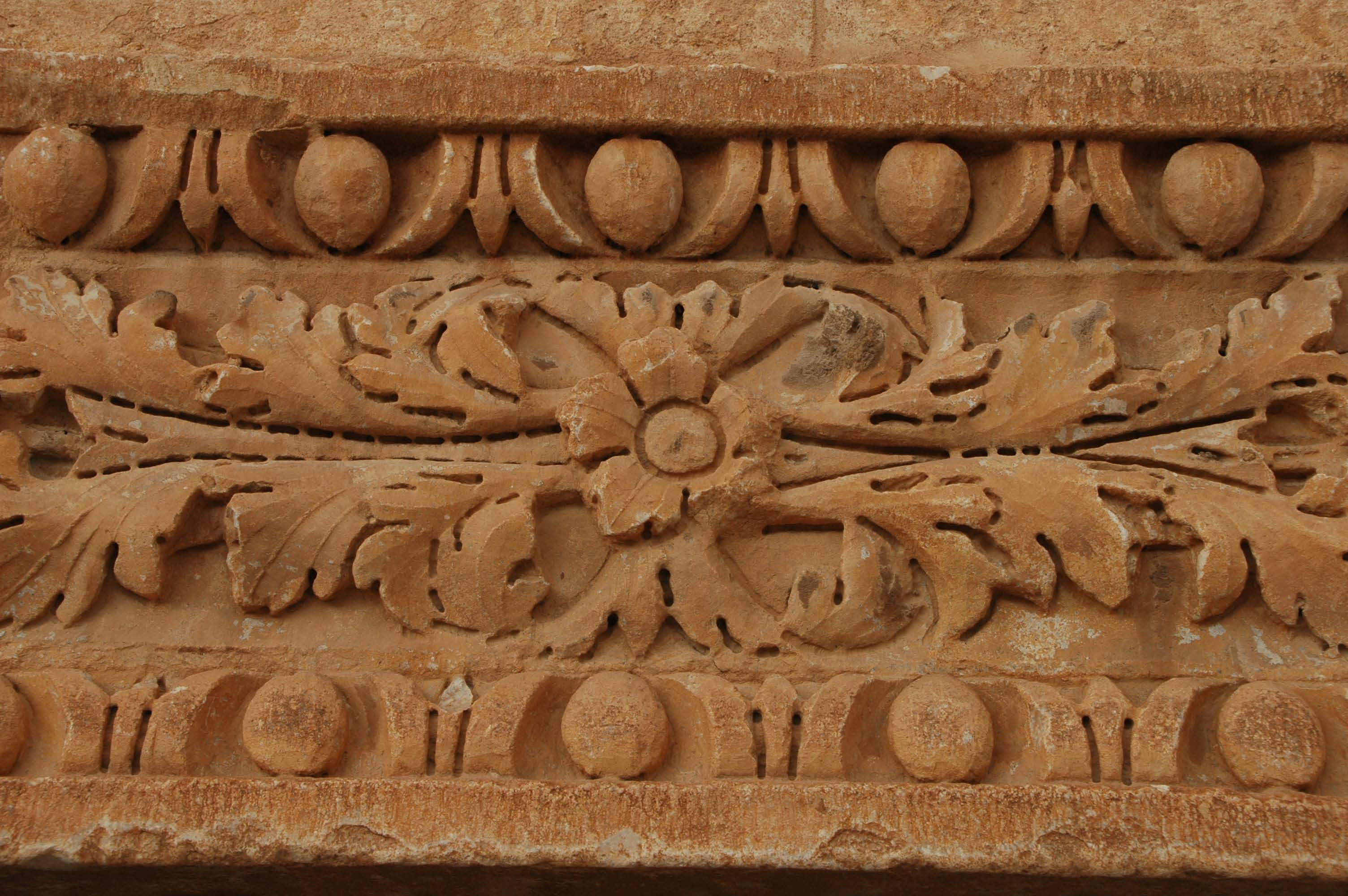 Detail of the lintel of the minaret door in the Great Mosque of Kairouan, also called Mosque of Uqba, in Tunisia.